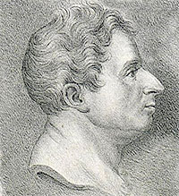 Francis af Sheldon (1755-1817 )